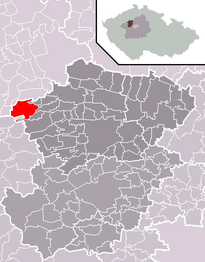 Location of Bílichov municipality within Kladno District and administrative area of Slaný as a Municipality with Extended Competence.